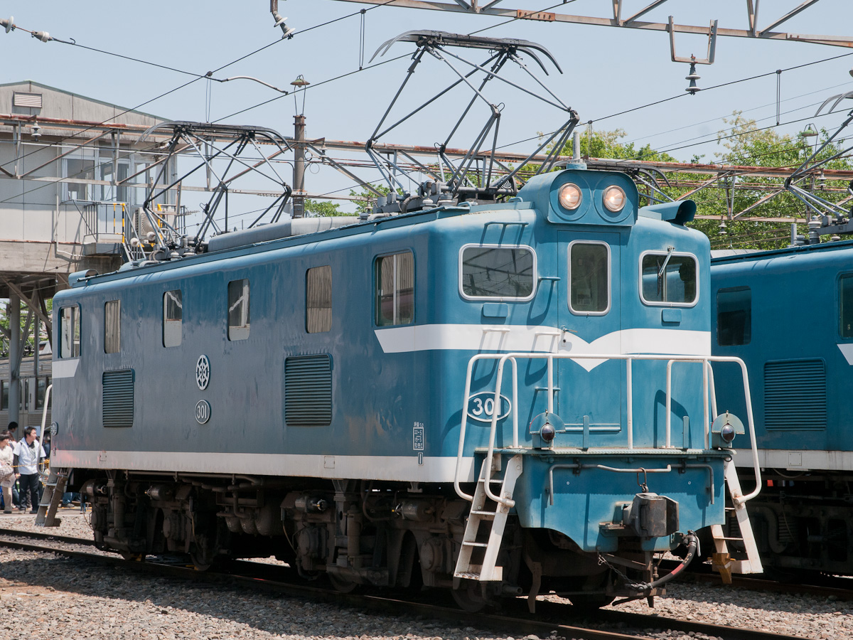 Chichibu Railway Class DeKi 300 electric locomotive DeKi 301 at Hirosegawara Depot open day